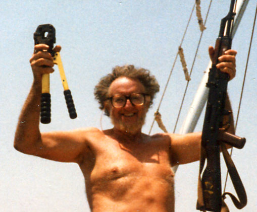 Reese Palley. Hydraulic cutter and Egyptian Kalesnikov used to bring down broken mast